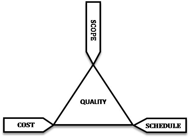 Every project is implemented under three constraints, scope, costs and schedule. The diagram shows quality as the fourth constraint or as a result of the three aforementioned constraints Project Management